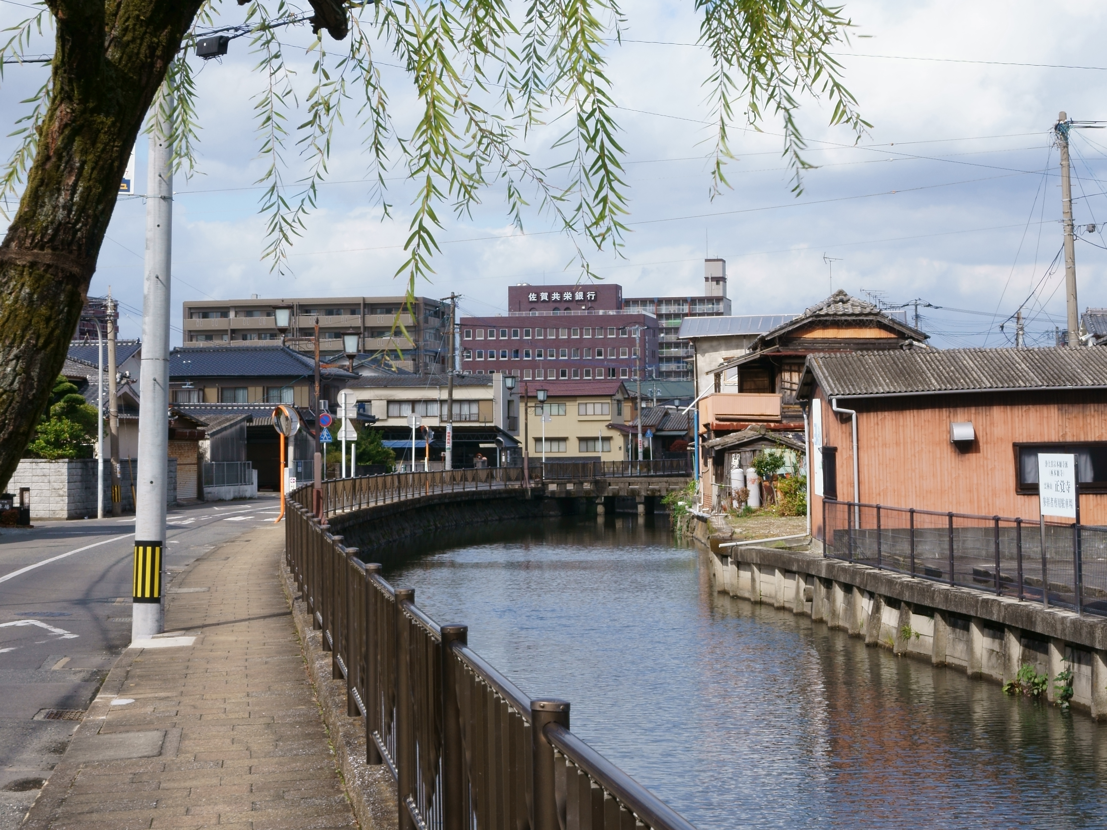 Side of Urajikken River in Zaimoku, Saga city, Saga, Japan.